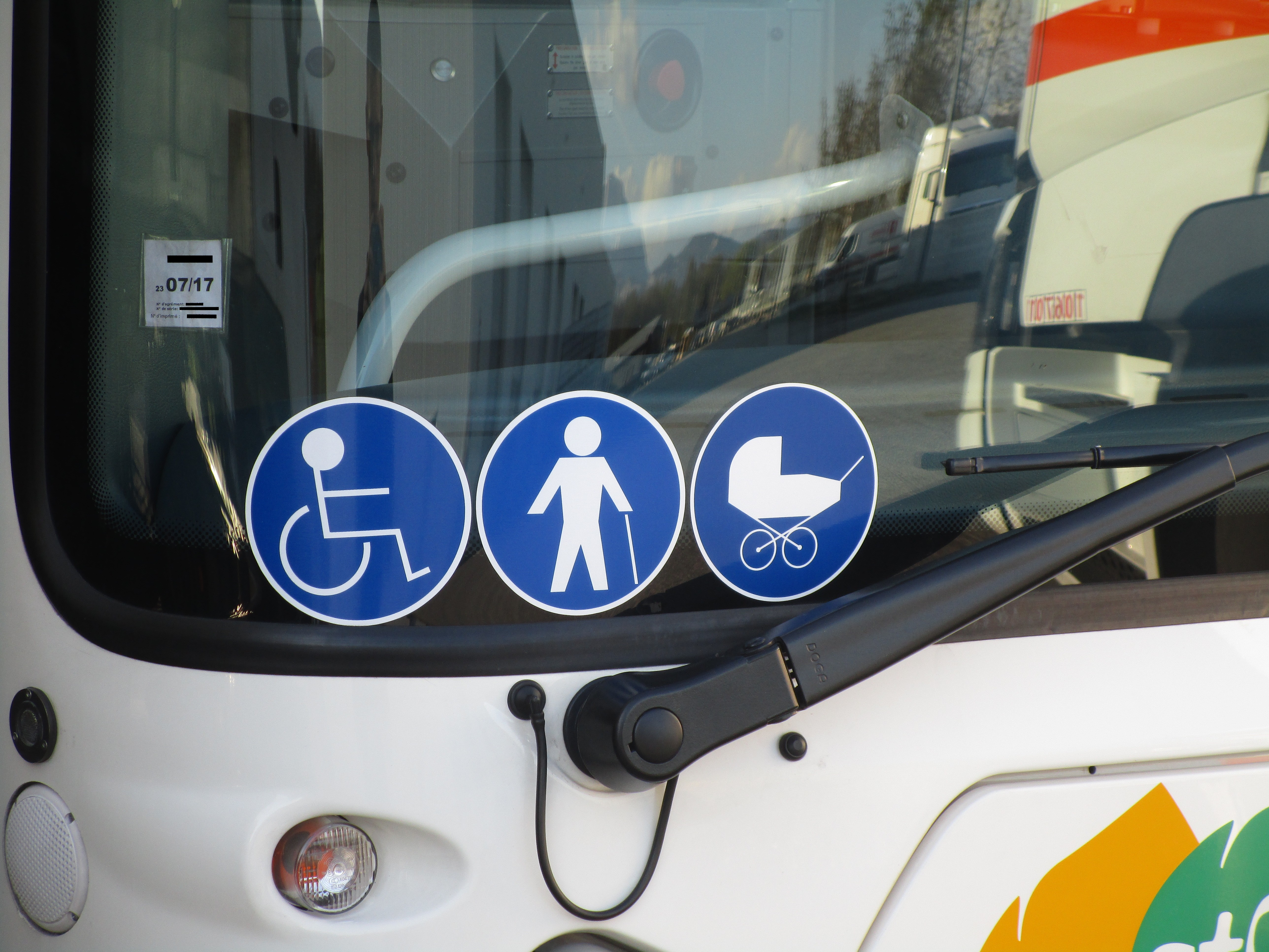 The accessibility symbols on the Heuliez GX 137 n°4113 of the STAC.